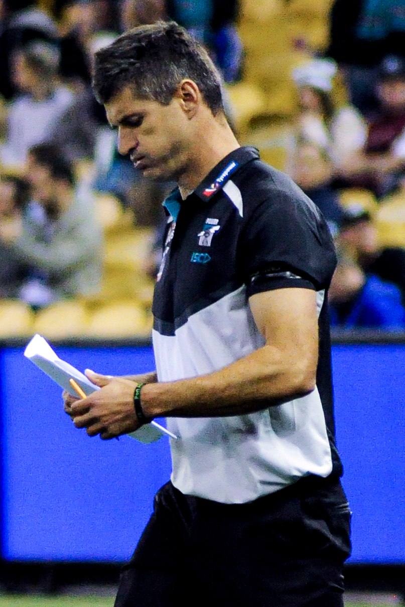 Nathan Bassett during the AFL round six match between North Melbourne and Port Adelaide on Saturday, 28 April 2018 at Etihad Stadium in Melbourne, Victoria.